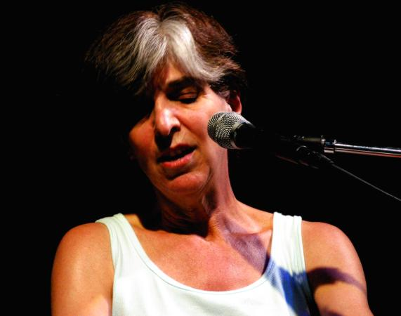 Marcia Ball, June 22, 2005, by photographer Steve Hopson. See more photos at: . Use of this photo requires attribution. Please credit, Steve Hopson Photography, .